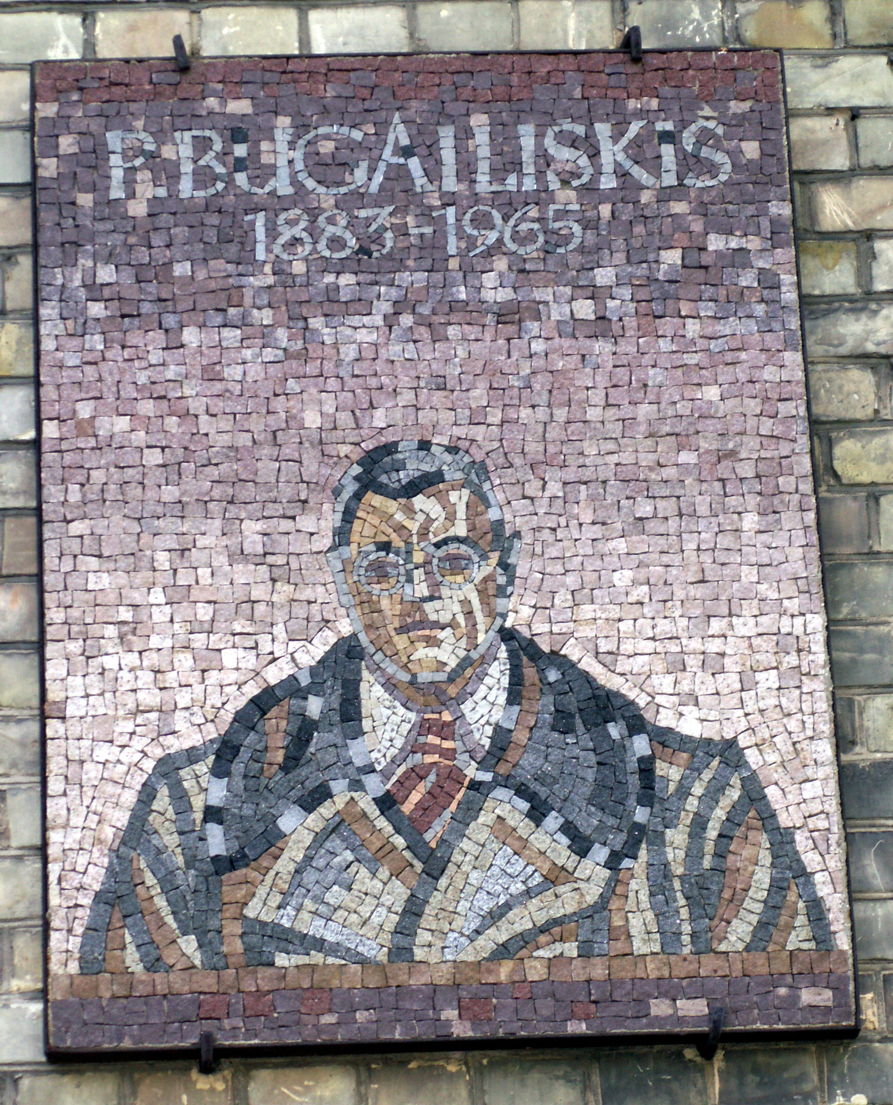 Mosaic of Peliksas Bugailiškis in Šiauliai, Lithuania